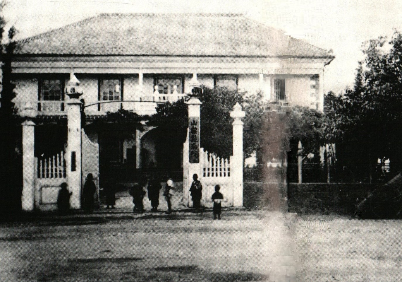 Yamanashi Prefectural hospital 1887